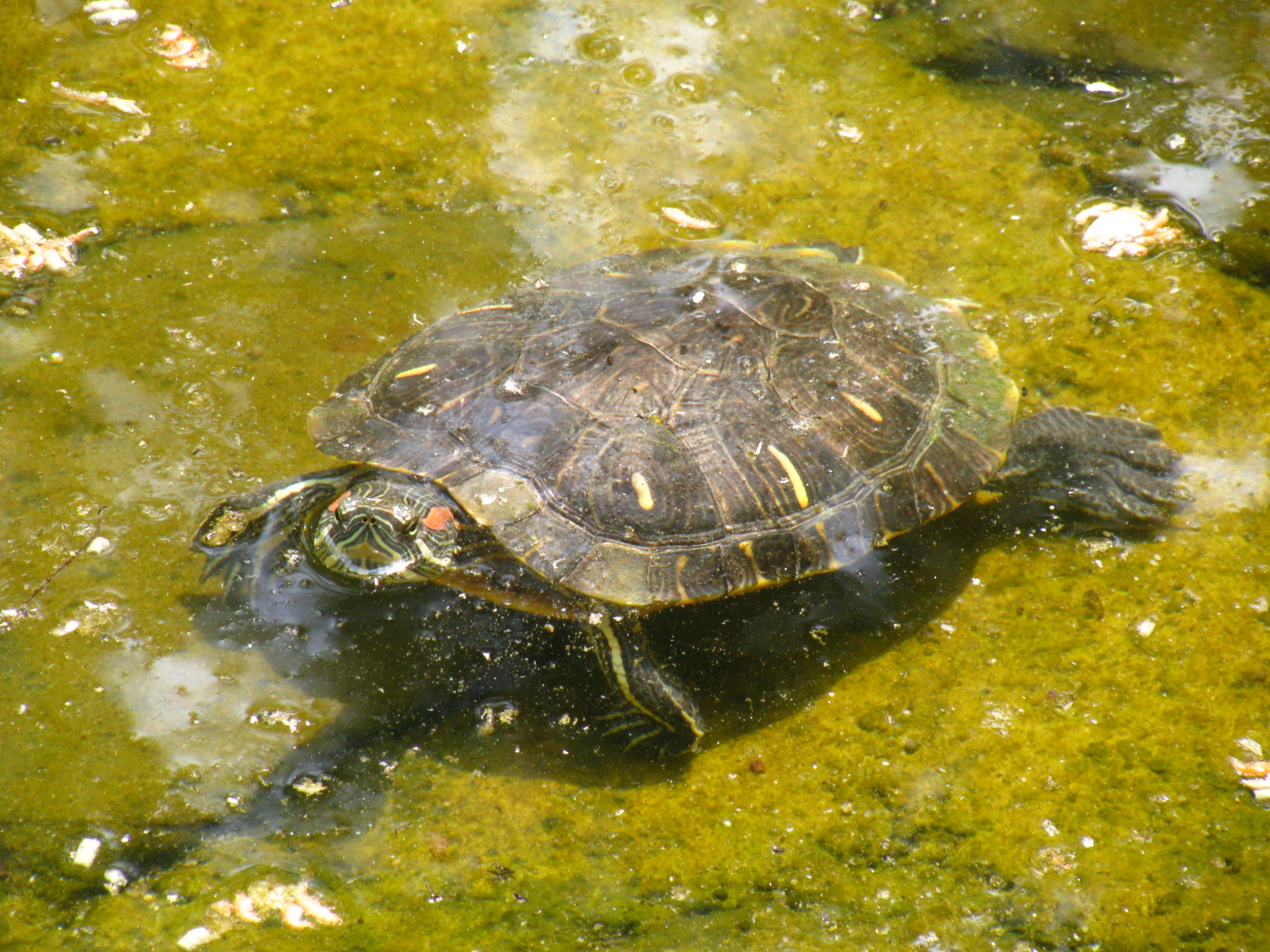 A Red-Eared Slider turtle, keeping defensive with only the nostrils and the eyes above the water surface.